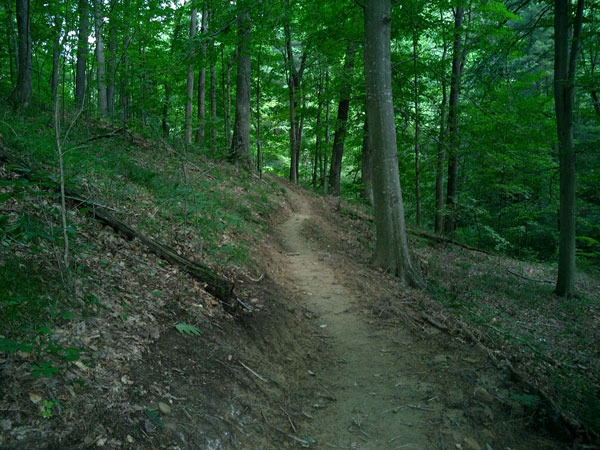 Sycamore Trail in Hoosier National Forest, Indiana